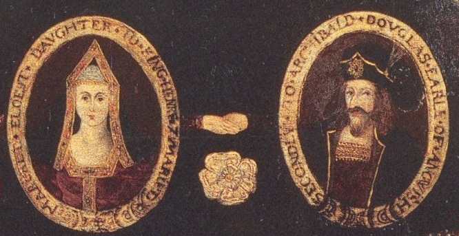 Margaret Tudor and Archibald Douglas. Detail from a painted family tree of James I and VI of England and Scotland